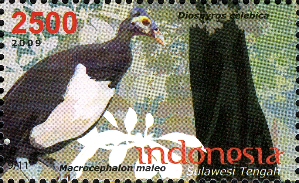 Stamps of Indonesia